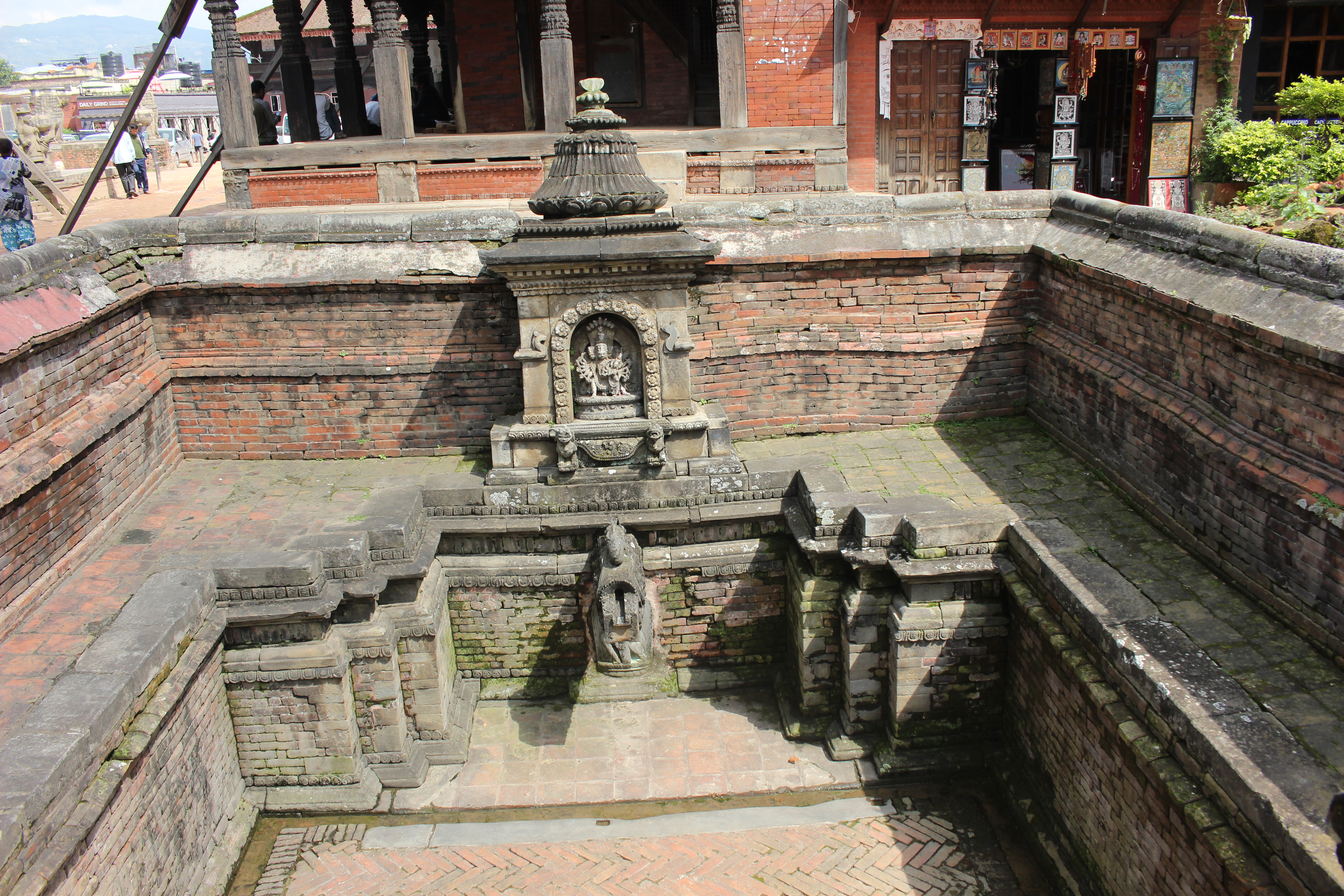 Bhaktapur Durbar Square is the plaza in front of the royal palace of the old Bhaktapur Kingdom, 1400m above sea level. It is a UNESCO World Heritage Site. The Bhaktapur Durbar Square is located in the current town of Bhaktapur, also known as Bhadgaon, which lies 13 km east of Kathmandu. While the complex consists of at least four distinct squares (Durbar Square, Taumadhi Square, Dattatreya Square and Pottery Square), the whole area is informally known as the Bhakapur Durbar Square and is a highly visited site in the Kathmandu Valley. नेपाली: भक्तपुर दरवार क्षेत्र ऐतिहासिक दृष्टिकोणवाट मात्र होइन साँस्कृतिक प्राचिन शिल्पकला एवं हस्तकलाको लागि समेत महत्वपूर्ण स्थल रहेको छ। प्राचिन कालमा मल्ल राजाहरू वसोवास गर्ने गरेको यो क्षेत्रमा पचपन्नझ्याले दरवार, भुपतिन्द्र मल्लको सालिक, भगवती मन्दिर, ठूलो घण्टा, तुलजा भवानीको तलेजु मन्दिर, सुनको ढोका आदि प्राचिन तथा ऐतिहासिक दृष्टिकोणवाट अत्यन्त महत्वपूर्ण कला कृतिहरूको विशाल एवं अनौठो भण्डार विद्यमान रहेको पाइन्छ। युनेस्कोको विश्व सम्पदा सूचीमा परेको भक्तपुर दरवार क्षेत्र वास्तवमा खुल्ला संग्राहलयहरूको रूपमा रहेको छ।